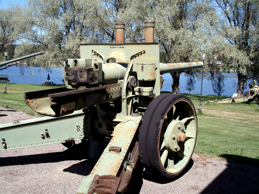 Soviet 122 mm M1931 gun, displayed in Hämeenlinna Artillery Museum. This improved version of the M1927 gun has rubber wheels better suitable for motor-towing. Photo taken on June 18, 2006. Source: Photo by me, User:Balcer.